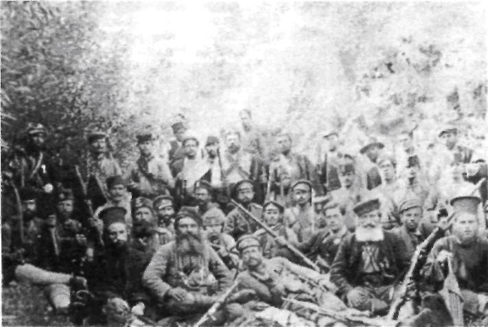 IMARO band of Dimitar Bakardzhiev.